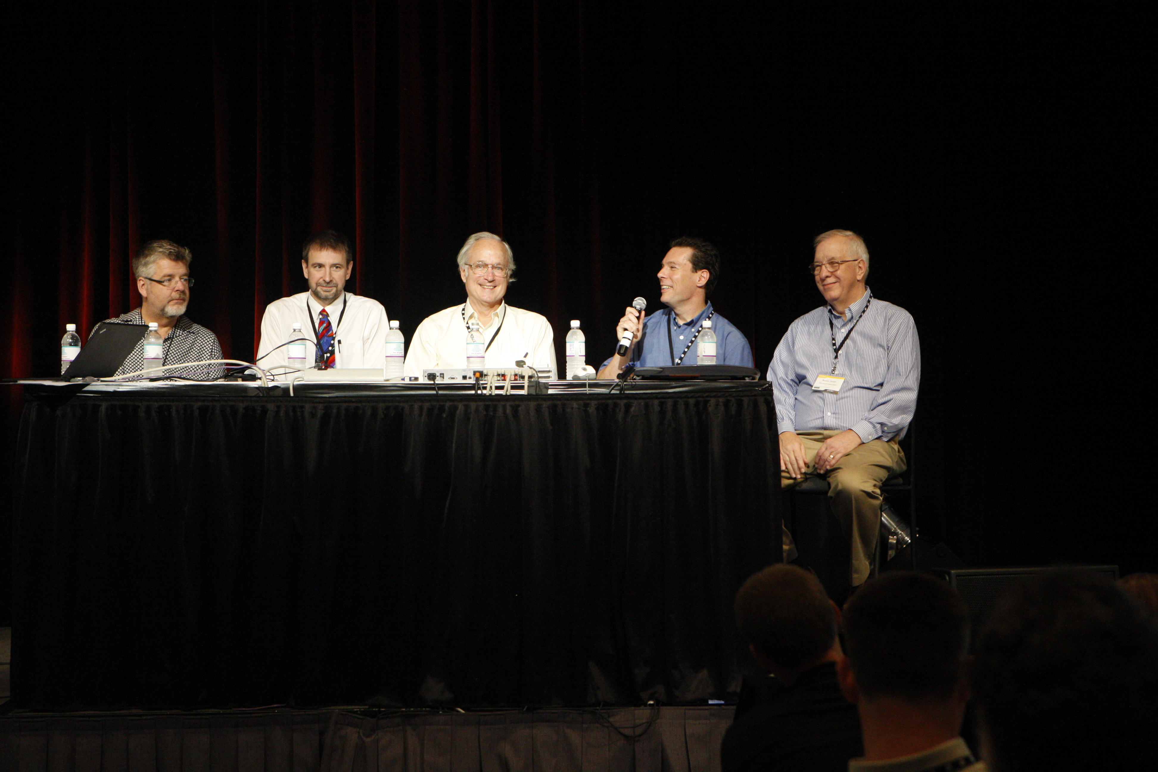 Professional Developers Conference 2009, Technical Leaders Panel: Don Box, Jeffrey Snover, Butler Lampson, Herb Sutter, Burton Smith